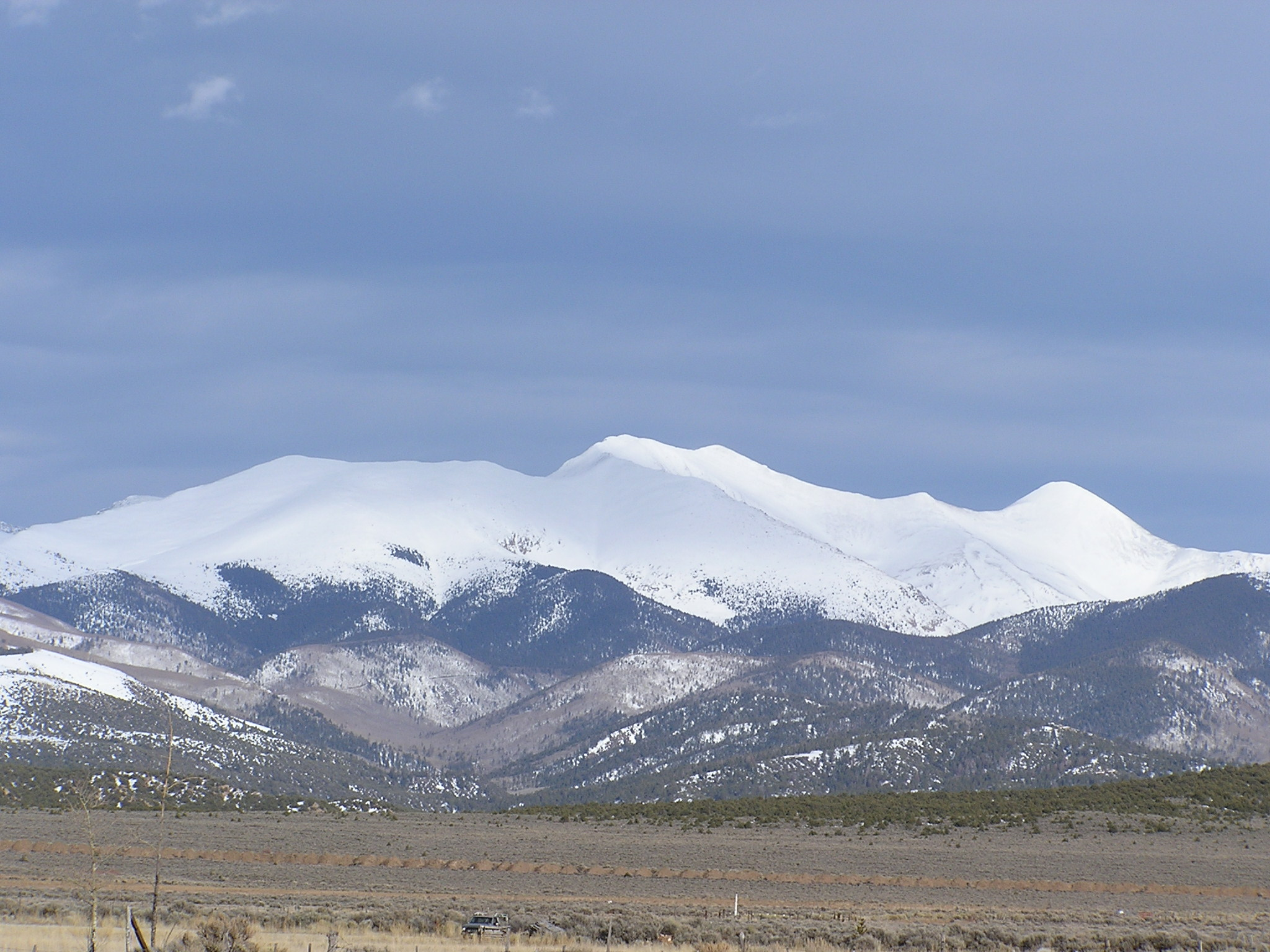 Culebra Peak, taken from along Costilla County 21 Road, about eight miles south of San Luis. The actual summit is just right of center. Reverse view - taken from the east side near Stonewall